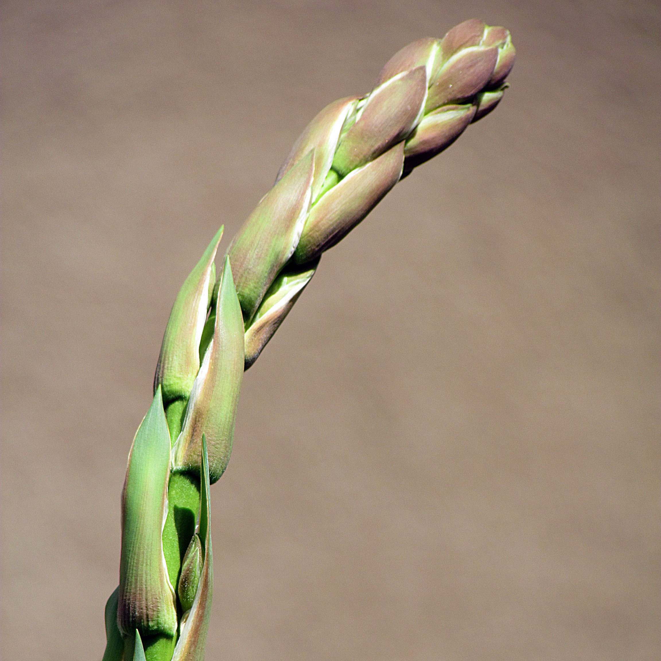 Bracts on flowering stem of Yucca filamentosa